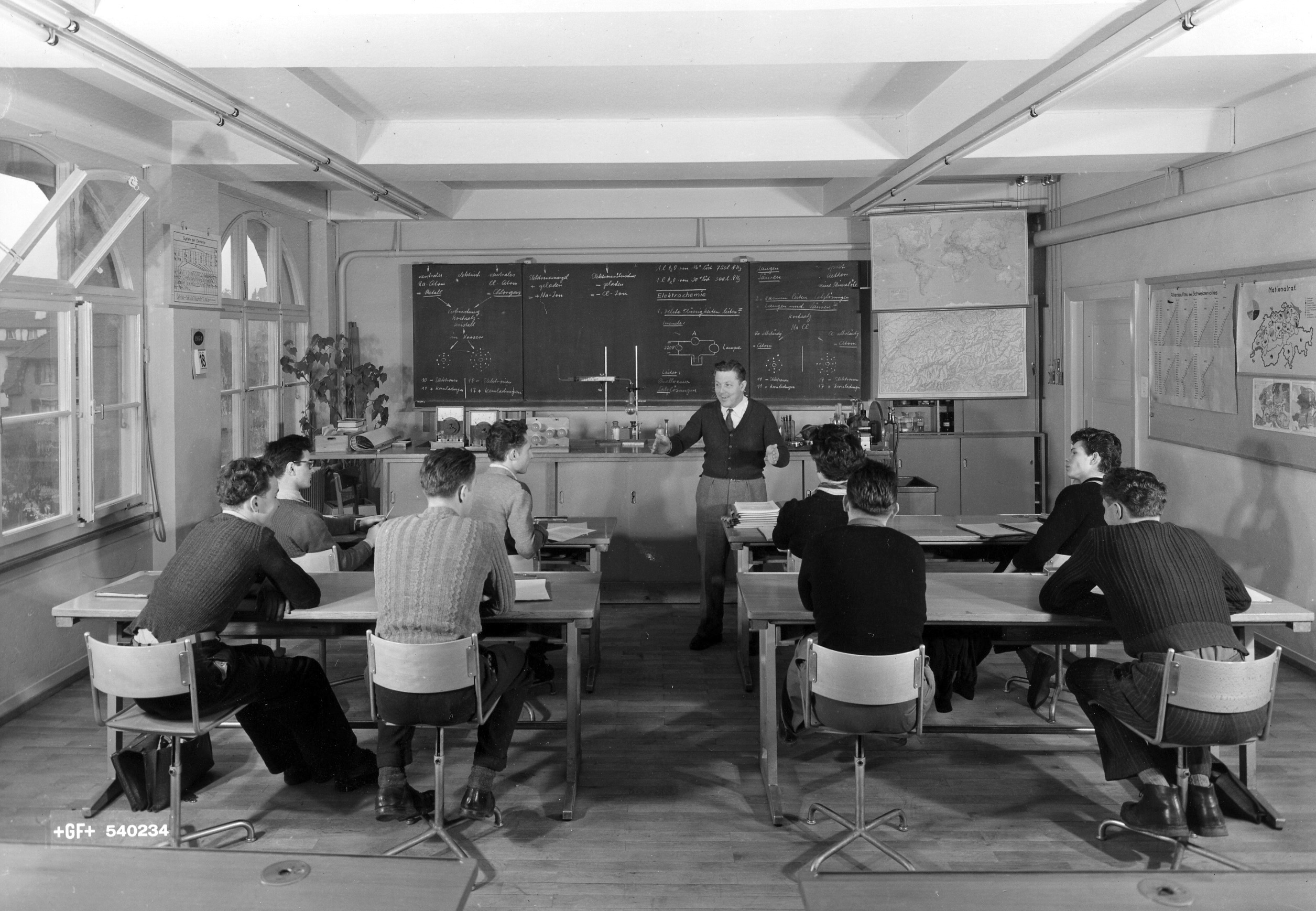 Werkschule, lessons in economics